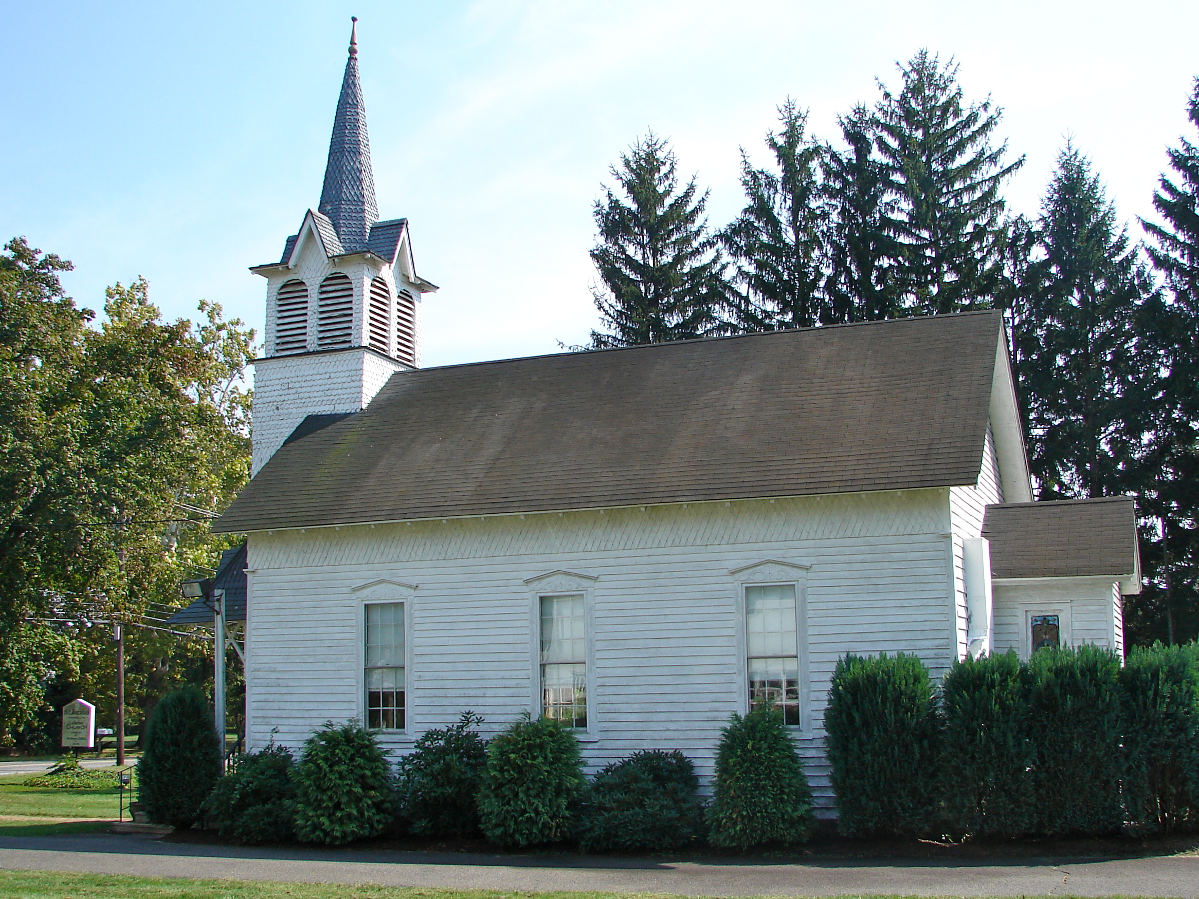 Jacobus Evangelical Lutheran Church on the NRHP since June 9, 1988. At Mays Landing Rd. and NJ 54 in Folsom Borough, New Jersey (Atlantic County). Founded by Dutch Settlers, the new Church next door is named St. James